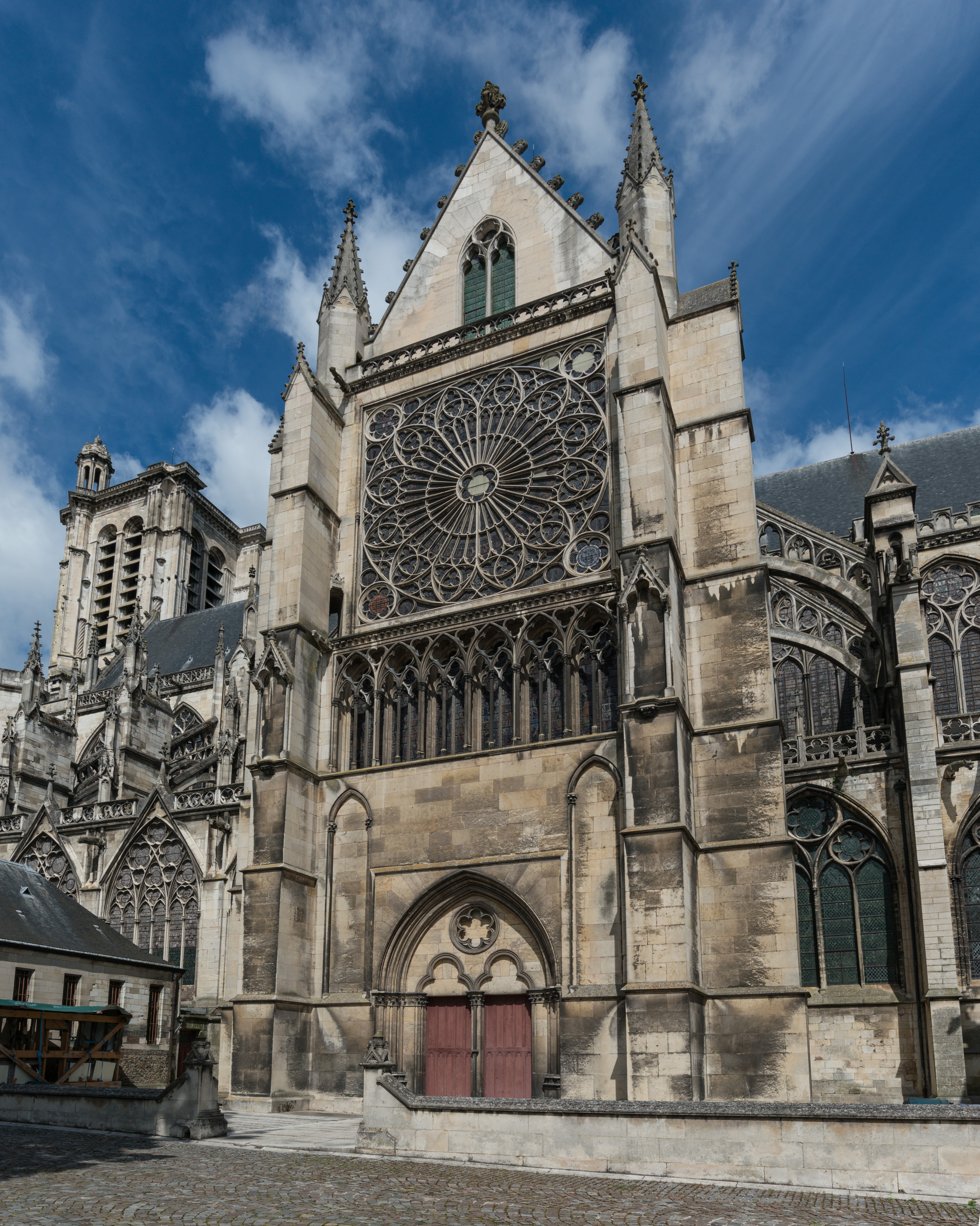 The south transept of Troyes Cathedral